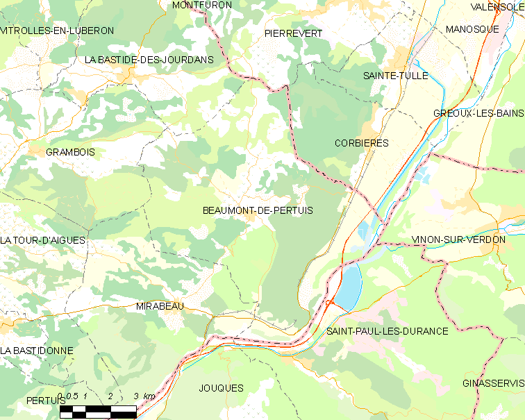 Map of French municipality Beaumont-de-Pertuis